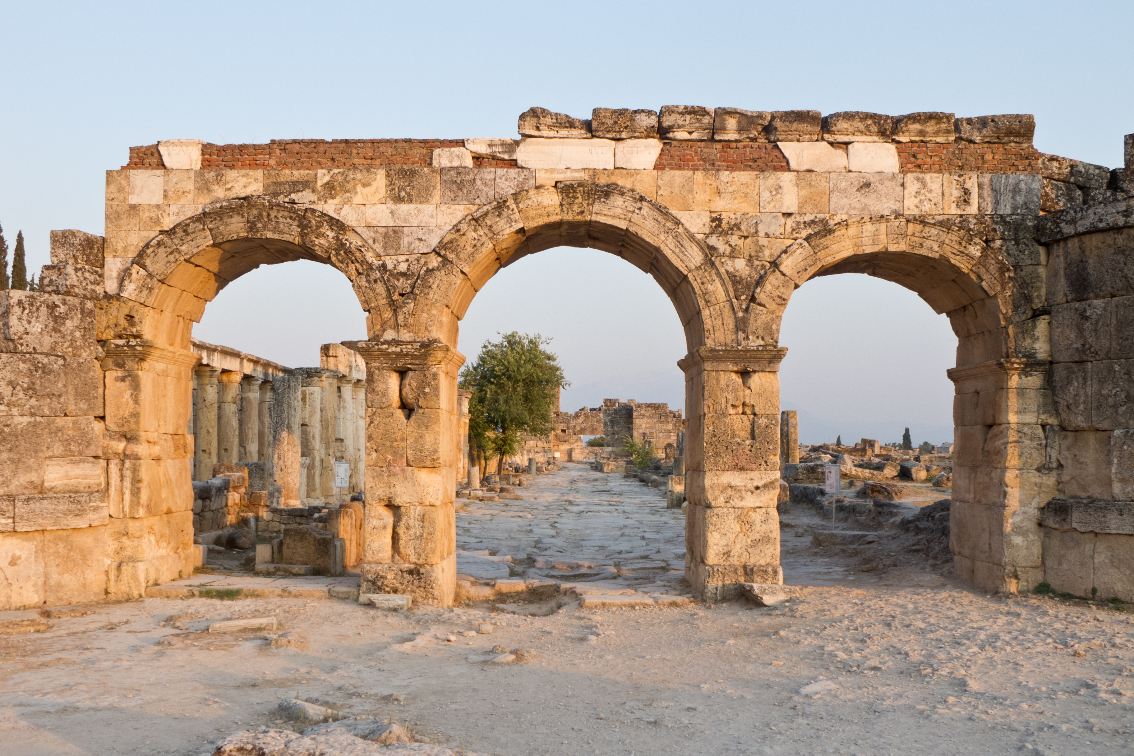 Domitian Gate, Hierapolis, in modern-day Turkey.